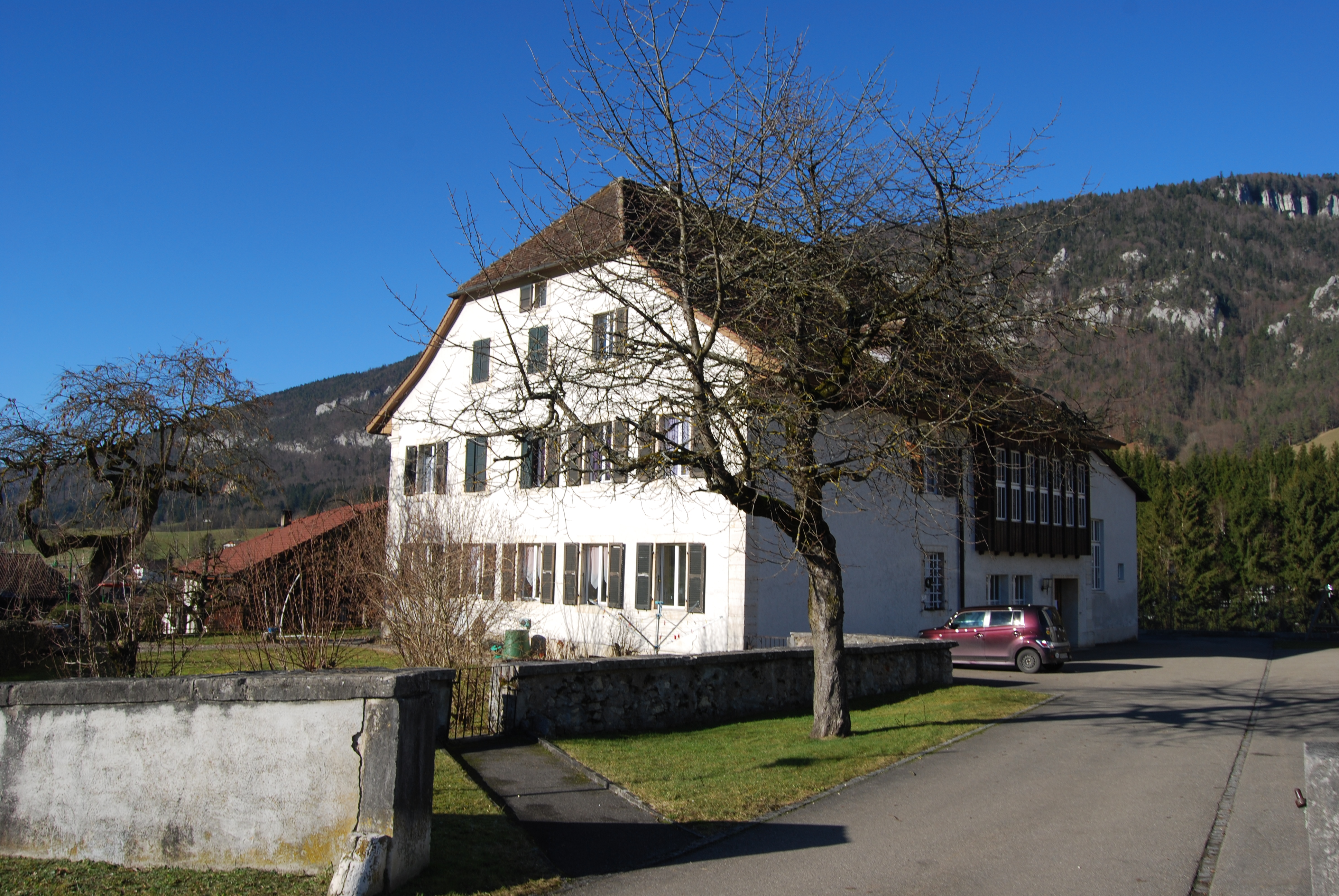 Grandval, canton of Bern, Switzerland